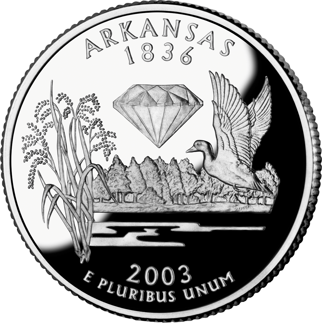 Removed background, cropped, and converted to PNG with Macromedia Fireworks. This image depicts a unit of currency issued by the United States of America. If Fraudulent use of this image is punishable under applicable counterfeiting laws. As listed by the United States Secret Service at money illustrations, the Counterfeit Detection Act of 1992, Public Law 102-550, in Section 411 of Title 31 of the Code of Federal Regulations (31 CFR 411), permits color illustrations of U.S. currency provided:1. The illustration is of a size less than three-fourths or more than one and one-half, in linear dimension, of each part of the item illustrated;2. The illustration is one-sided; and3. All negatives, plates, positives, digitized storage medium, graphic files, magnetic medium, optical storage devices, and any other thing used in the making of the illustration that contain an image of the illustration or any part thereof are destroyed and/or deleted or erased after their final use. Certain coins contain copyrights licensed to the U.S. Mint and owned by third parties or assigned to and owned by the U.S. Mint [1]. For the United States Mint circulating coin design use policy, see [2]; for the policy on the 50 State Quarters, see [3]. Also: COM:ART #Photograph of an old coin found on the Internet